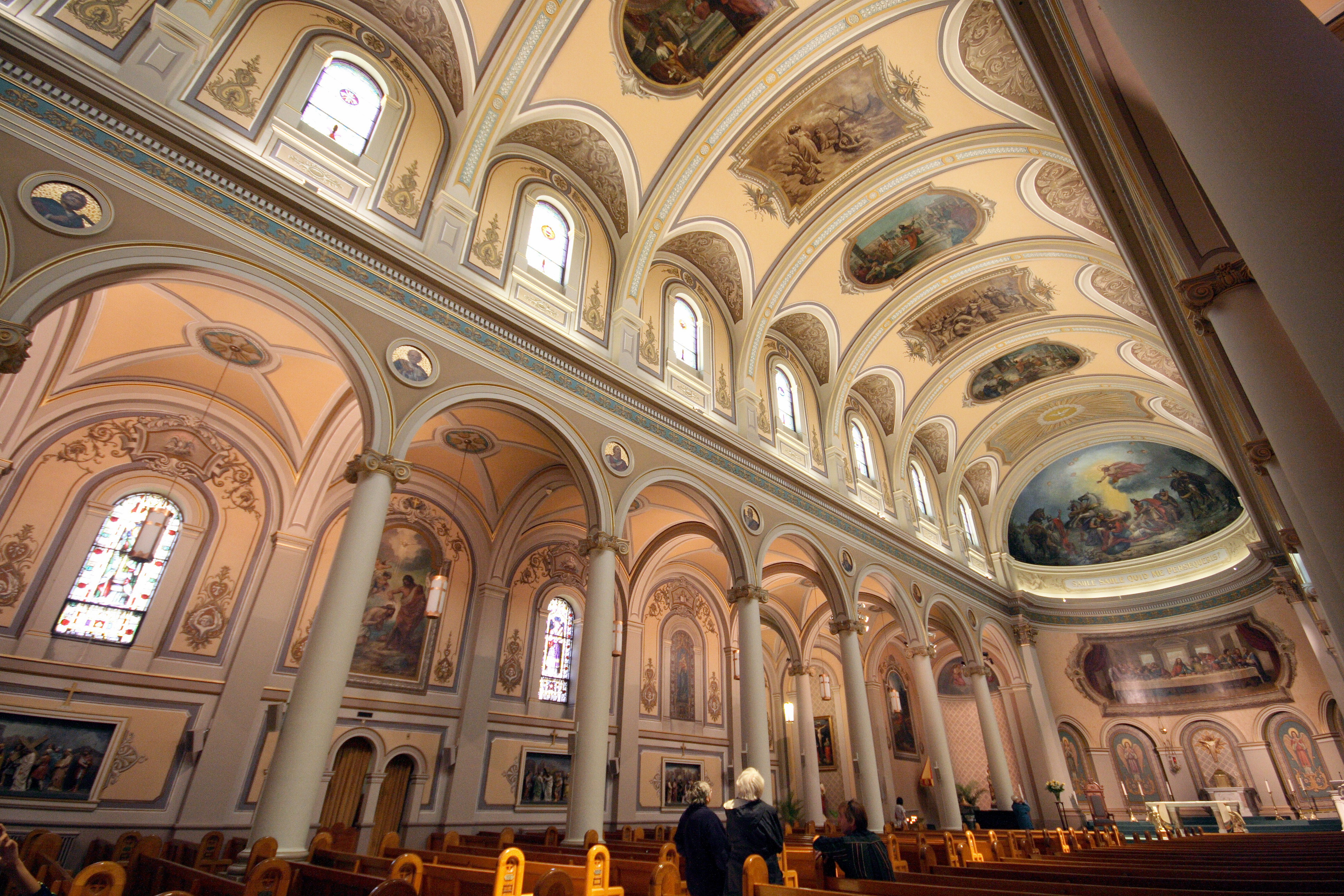 St. Paul's Basilica, Toronto Doors Open